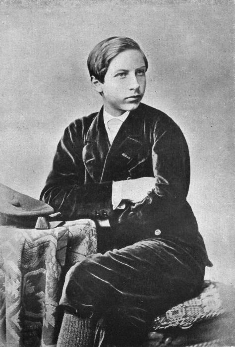 Wilhelm II at School